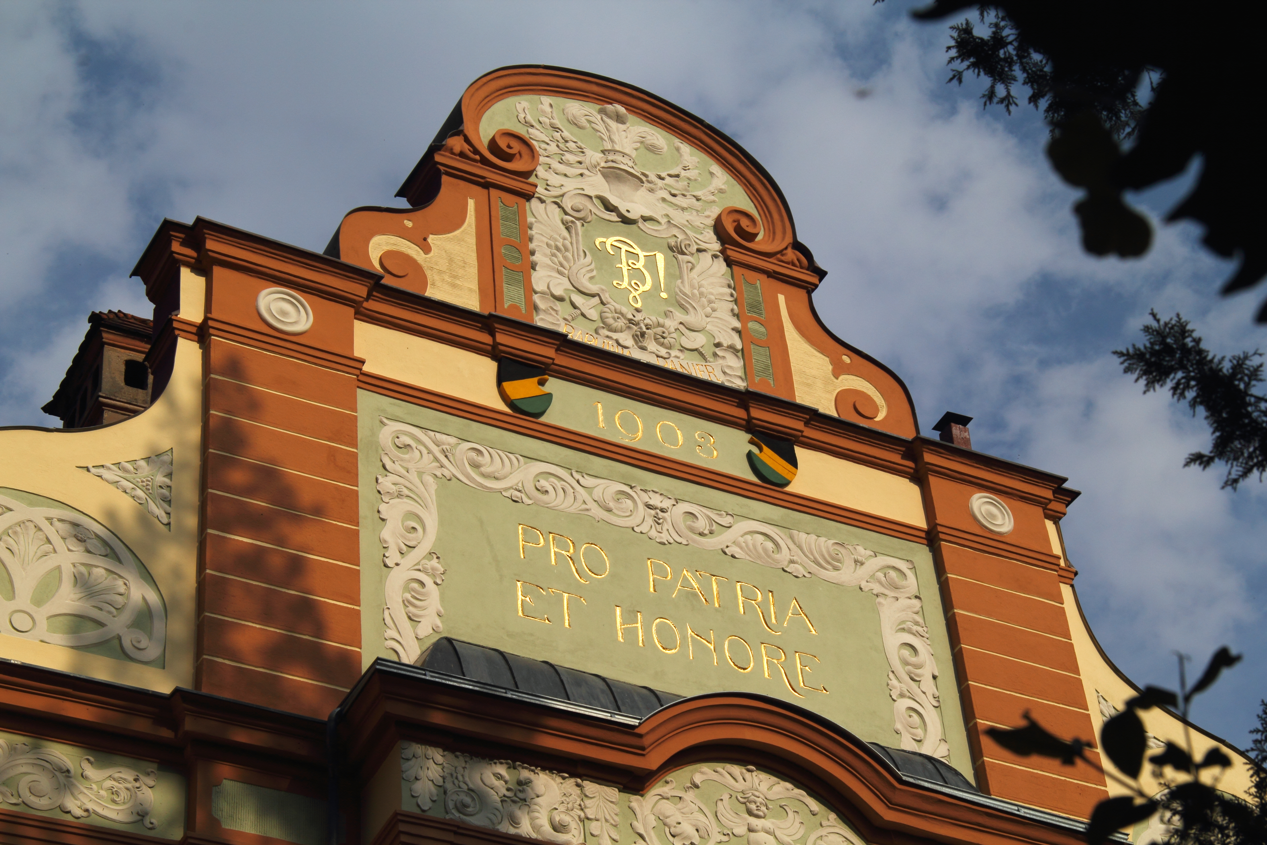 Gable of the house of student fraternity Corps Baruthia Erlangen, Erlangen, Bavaria/Germany